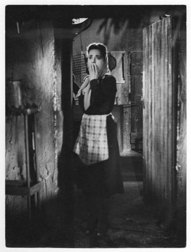 Anita Jordan in the Argentine film El inglés de los güesos.